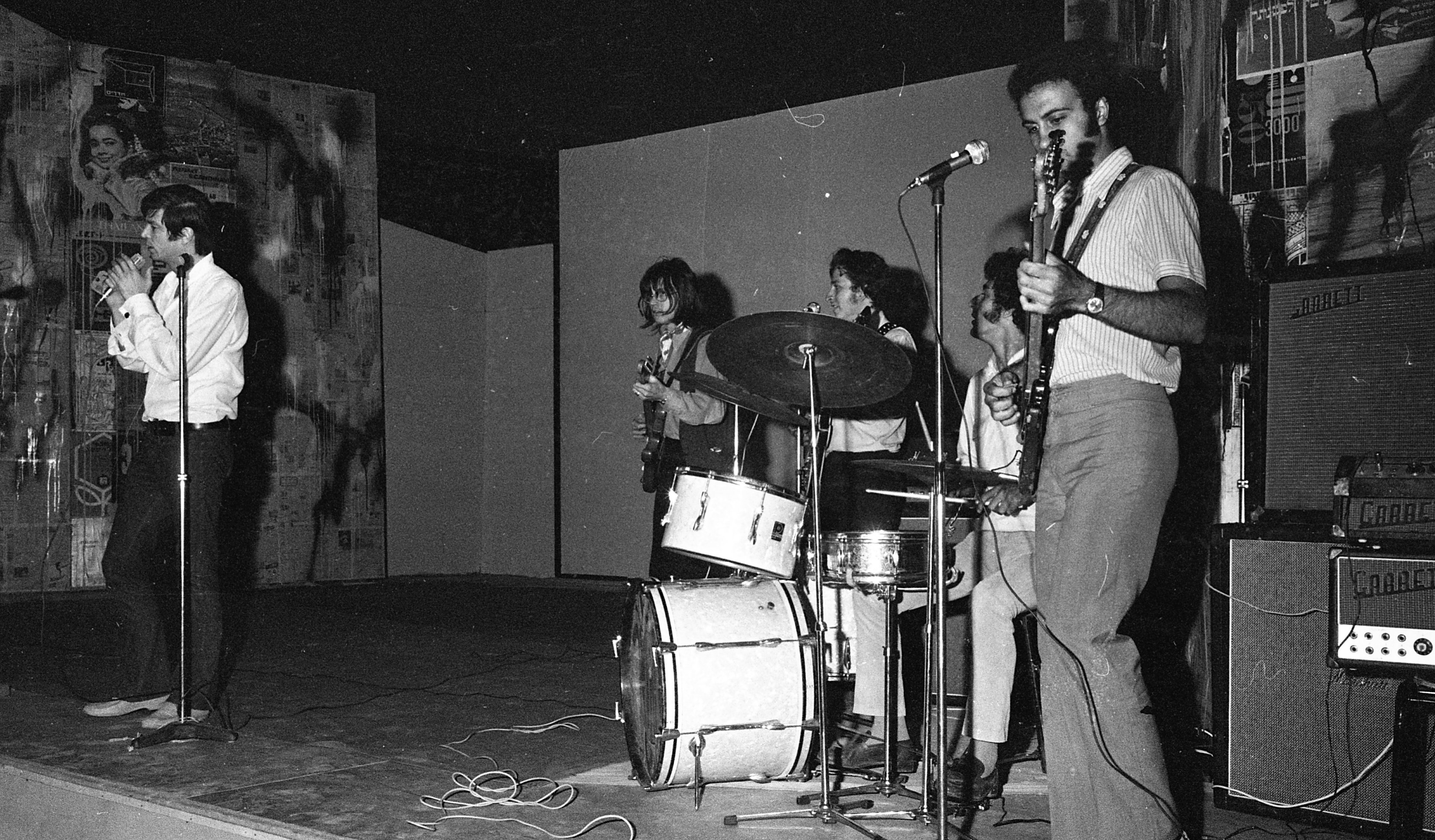 Israel Galili in an IDF airplane on his way to the show "Kaleidoscope" with Haim Yavin from the Israeli TV.